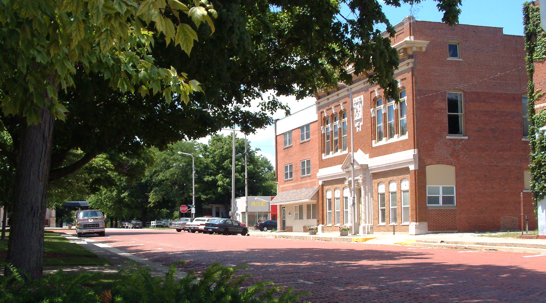 Buildings along Smith Street, on the north side of the town square in Oxford, Indiana. The larger brick structure is the Oxford Masonic Temple building. This photo looks west-northwest from the intersection of Smith Street and Howard Street.